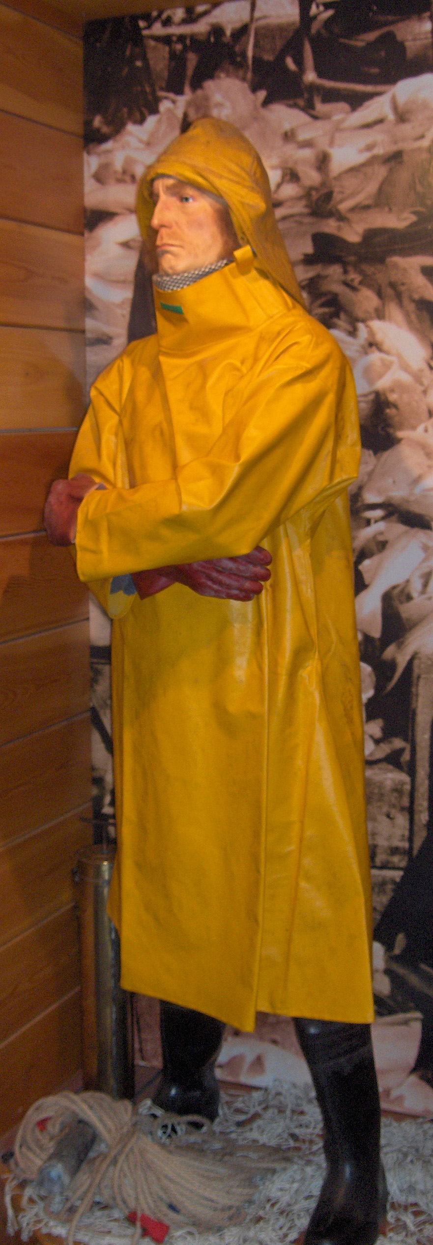 Fisherman in weatherproof outfit - The O129.Amandine is a former trawler fishing in Icelandic waters. It now has become a maritime museum in Oostende, Belgium